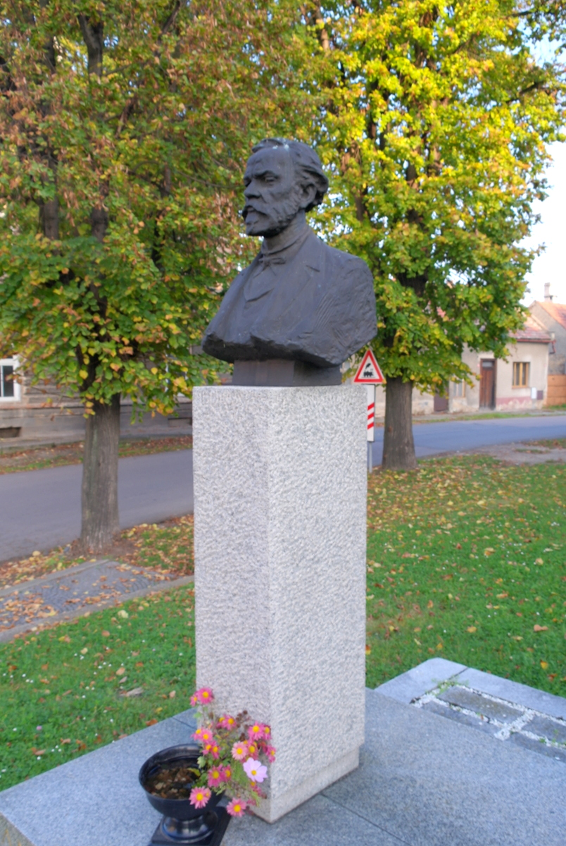 Monument of Antonín Dvořák, Liehmanova street, Zlonice